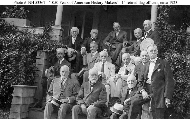 Fourteen retired United States Navy and United States Marine Corps flag officers. Front row, left to right: Rear Admirals Yates Stirling (1843-1929), George C. Remey (1841-1928), George H. Wadleigh (1842-1927), and Theodore F. Jewell (1844-1932). Middle row, left to right: Rear Admirals William T. Swinburne (1847-1928), Spencer S. Wood (1861-1940), Colby M. Chester (1844-1932), Albert Gleaves (1858-1937), and Newton E. Mason (1850-1945). Back row, left to right: Major General George F. Elliott (1846-1931); Rear Admirals Warner B. Bayley (1845-1928), Joseph L. Jayne (1863-1928), Bradley A. Fiske (1854-1942), and Reginald F. Nicholson (1852-1939).